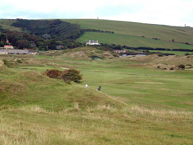 Golf course at Saunton. The golf course is located on part of the dune slack at Braunton Burrows